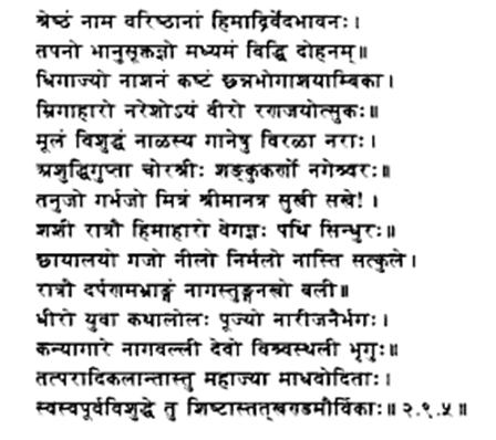 Sangamagrama Madhava's sine table in Devanagari